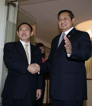 The President of Indonesia Susilo Bambang Yudhoyono and Japanese politician Yoshihide Suga